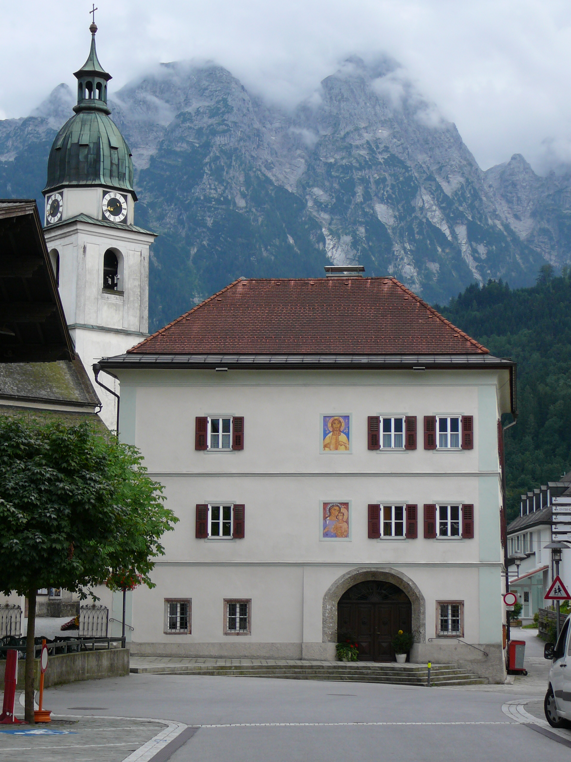 Rectory, Kuchl, state of Salzburg, Austria. Dahinter die Pfarrkirche.